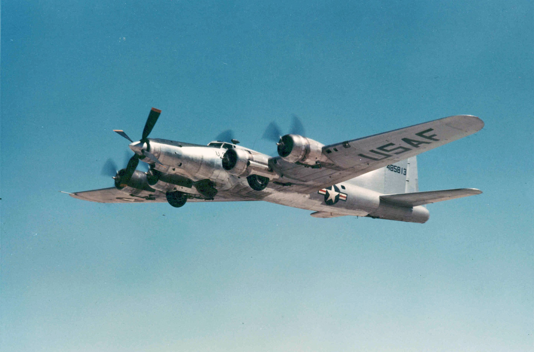 front view of Boeing B-17G test bed for turbo prop engine, in flight near Edwards Air Force Base, Calif., on Aug. 9, 1956.